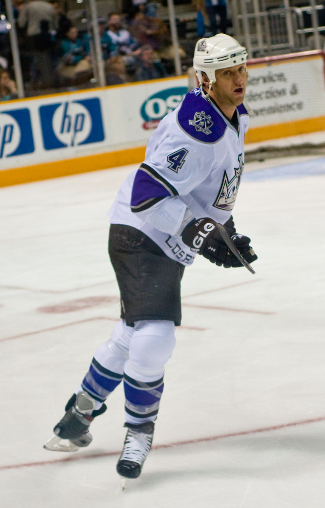 Rob Blake in San Jose taken 19:06, 1 April 2008. Robert Bowlby Blake (born ) is a Canadian professional ice hockey defenseman with the San Jose Sharks of the National Hockey League (United States and Canada). Playing career Blake was drafted 70th overall in w:1988 NHL Entry Draft by the Los Angeles Kings, with whom he played for twelve seasons. While there, he reached the Stanley Cup final in 1993, losing to the Montreal Canadiens, and eventually became the Kings' captain after Wayne Gretzky was traded to St. Louis Blues (hockey) in 1996.